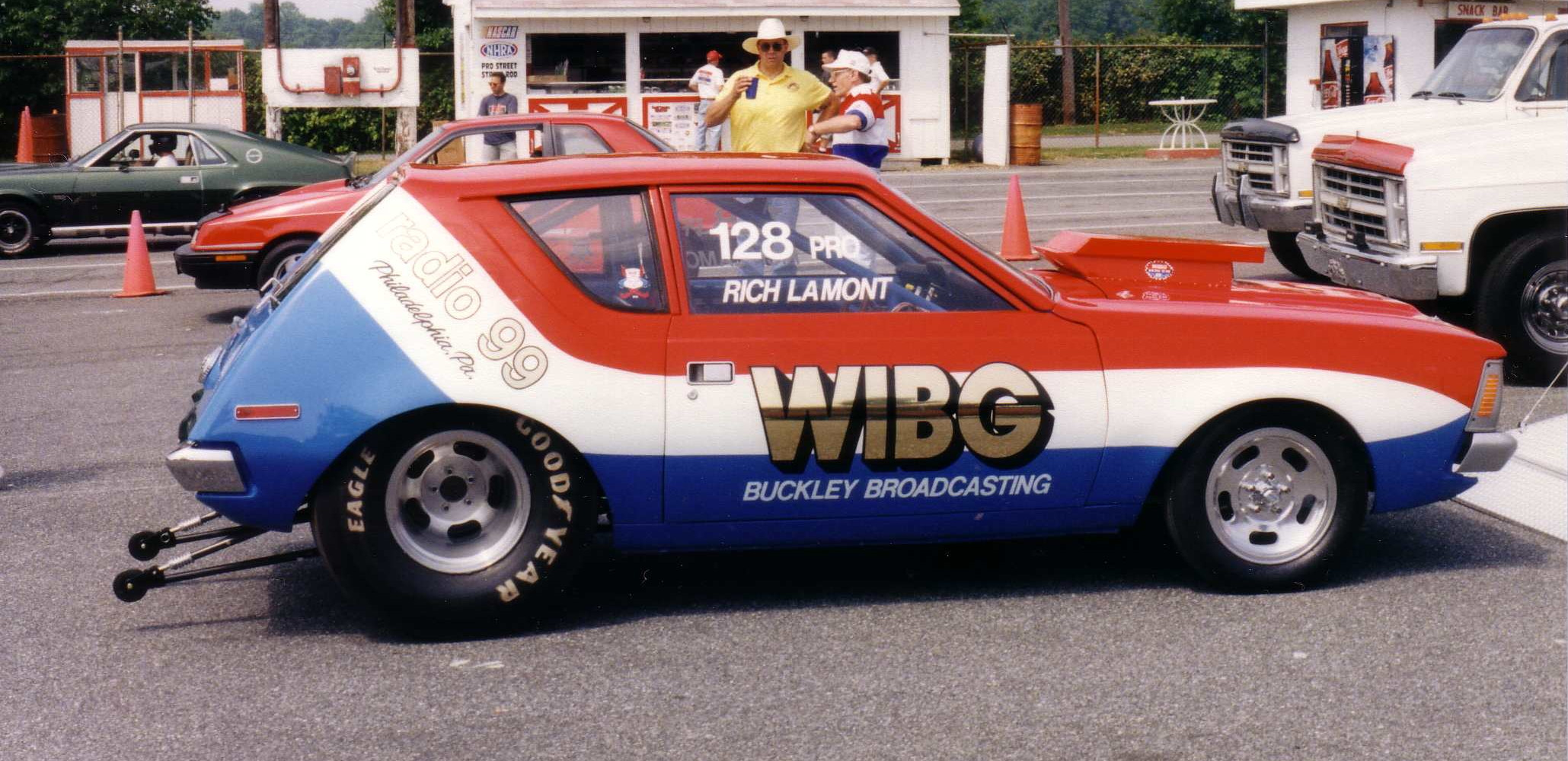 (1972 AMC Gremlin historic veteran dragster that was driven by Rich LaMont and sponsored by radio station 99 WIBG in Philadelphia, PA. This car RUNS the quarter-mile at around 8.75 seconds achieving over 150 mph (240 kph). This Pro-Stock racer is restored and and period correct. Picture taken at the Cecil drag racestrip in Maryland.